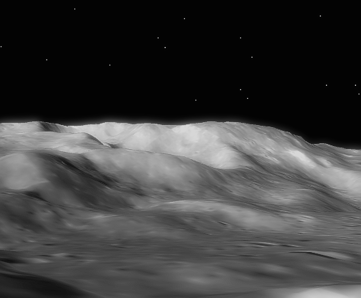 Artist view approaching the Selenian Summit SW looking towards Engelhardt Crater